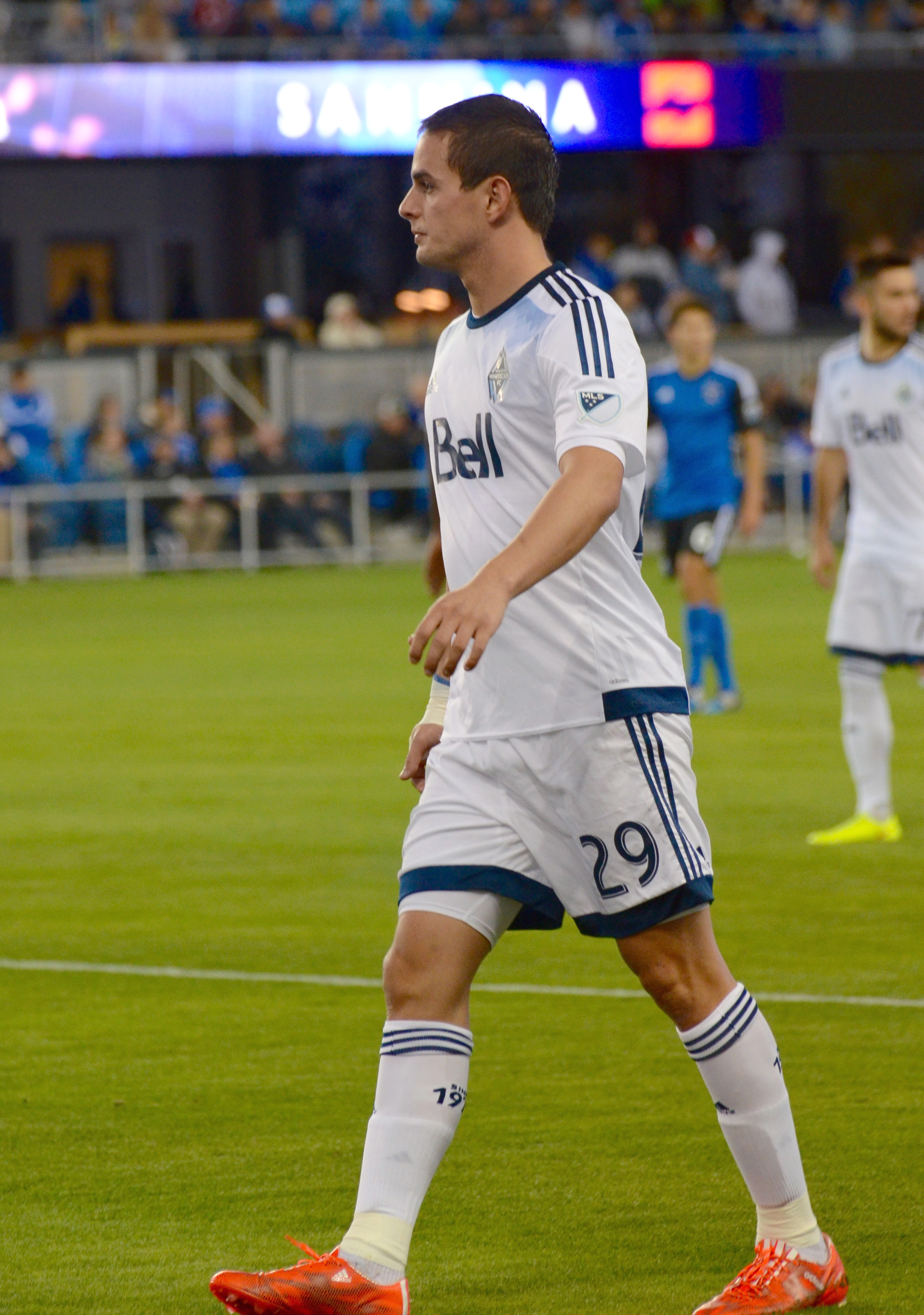 Octiavio Rivero playing for the Vancouver Whitecaps vs the San Jose Earthquakes at Avaya stadium on 11 April 2015